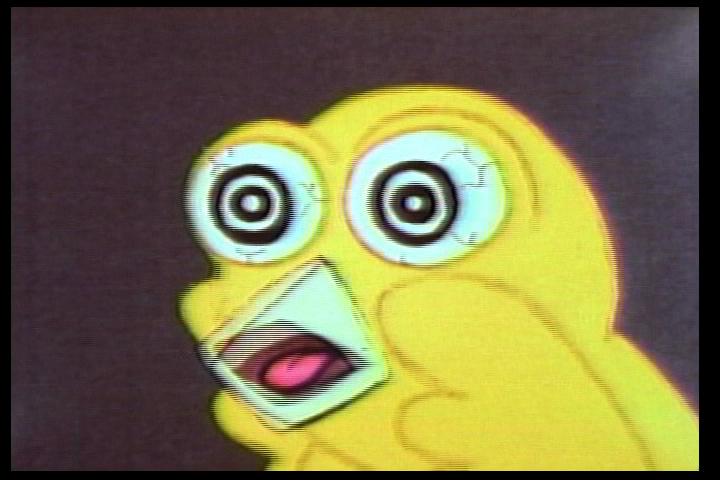 Image was e-mailed to me by Chirpy director, John E. Goras, and subsequently explicitly released under GDFL and CC-BY-SA-all, via e-mail, on 12/07/2010 at precisely 5:21 PM PST.